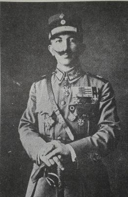 Greek Lieutenant General Nikolaos Trikoypis